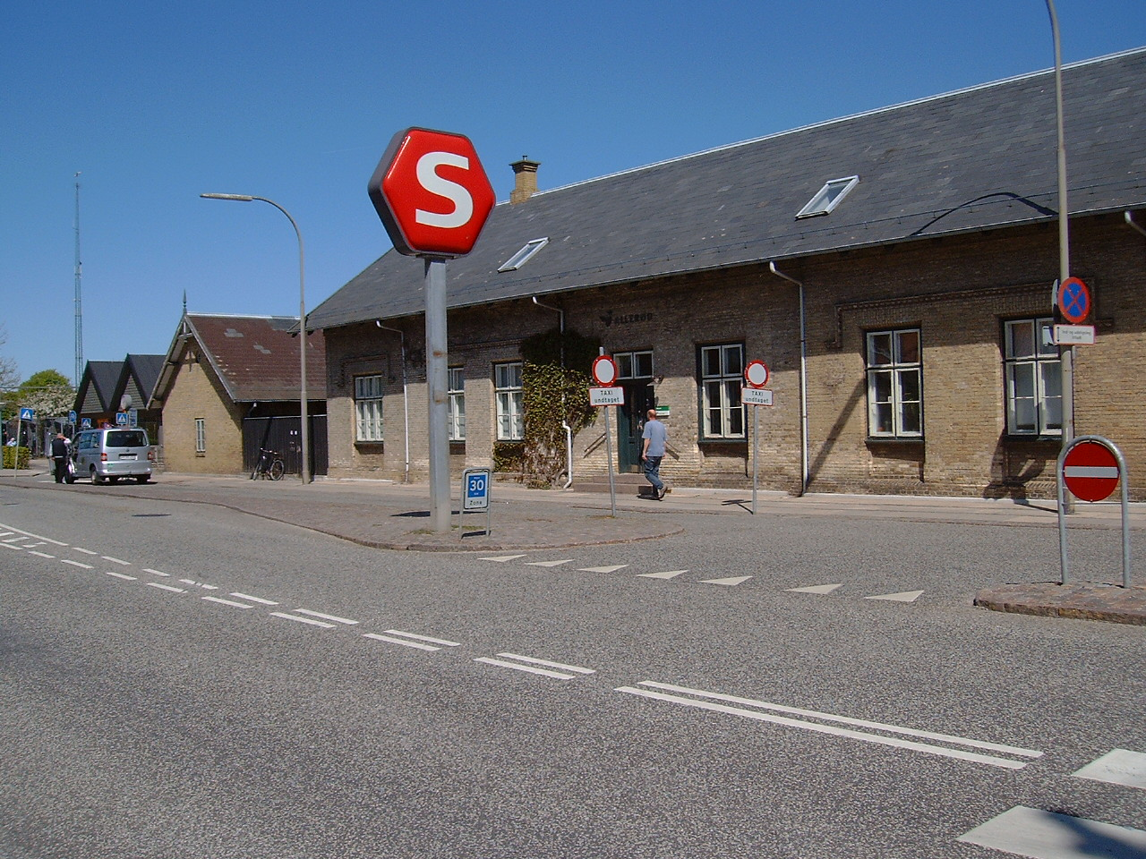 A picture of the Danish Raill Station: Allerød